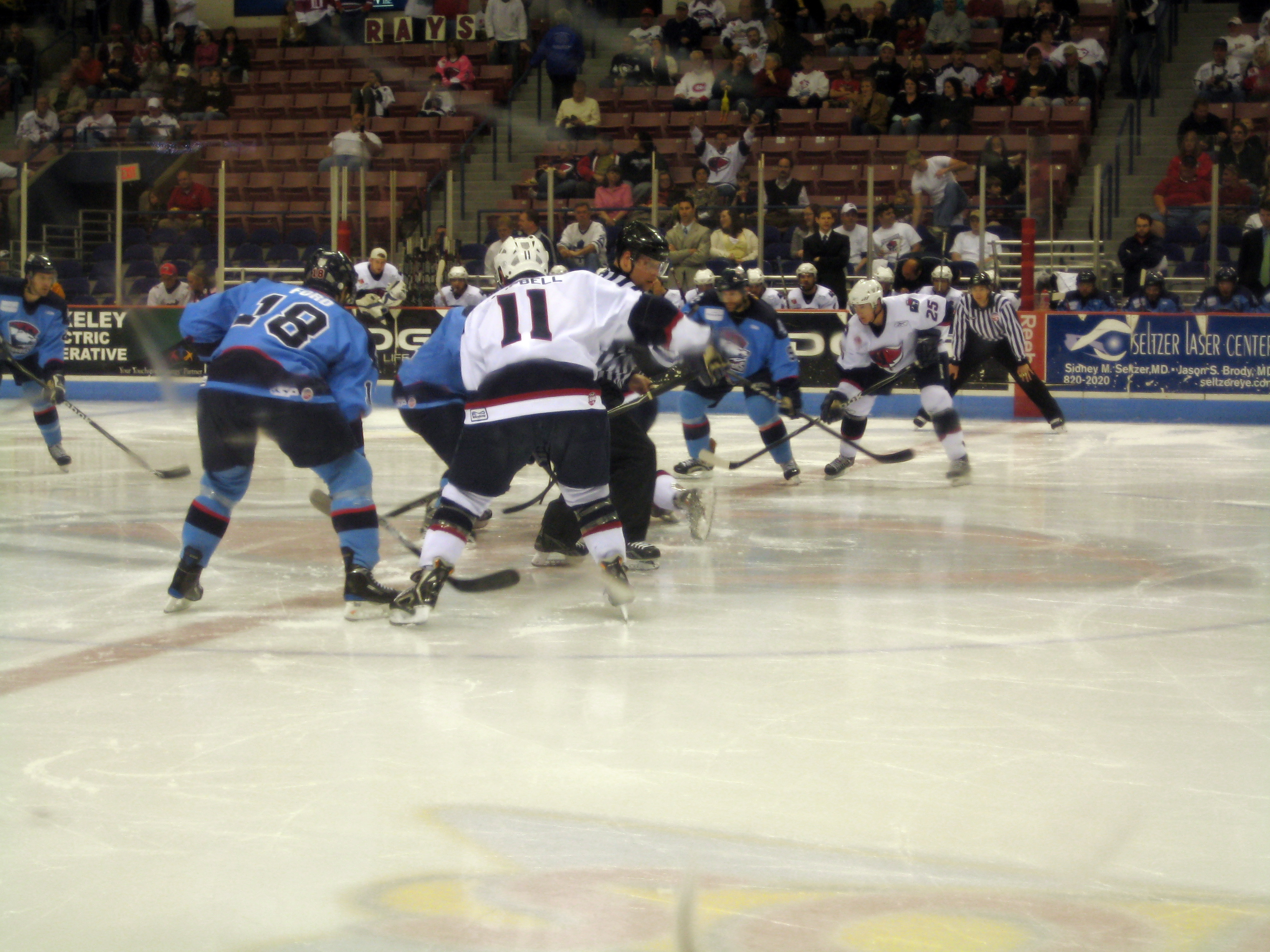 The South Carolina Stingrays battle the Charlotte Checkers in round one of the 2009 Kelly Cup playoffs.